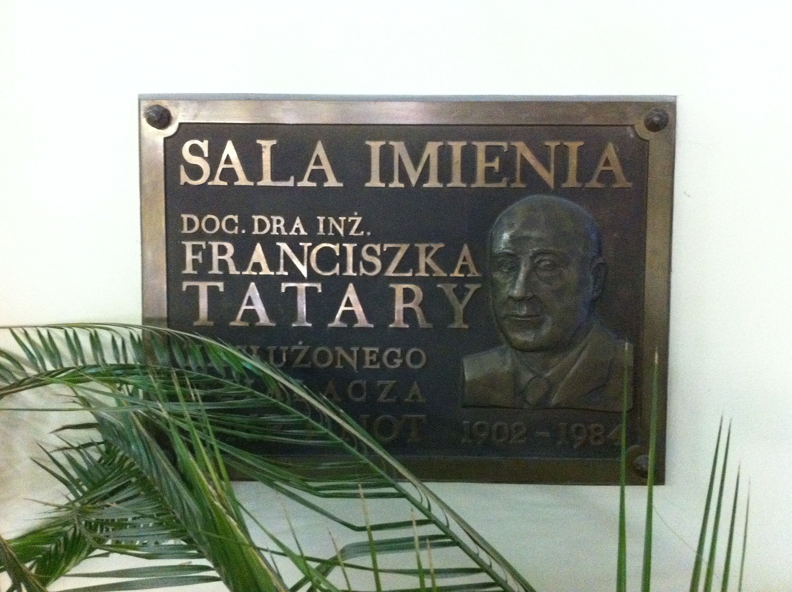 Commemorative plaque of Franciszek Tatara in Poznan